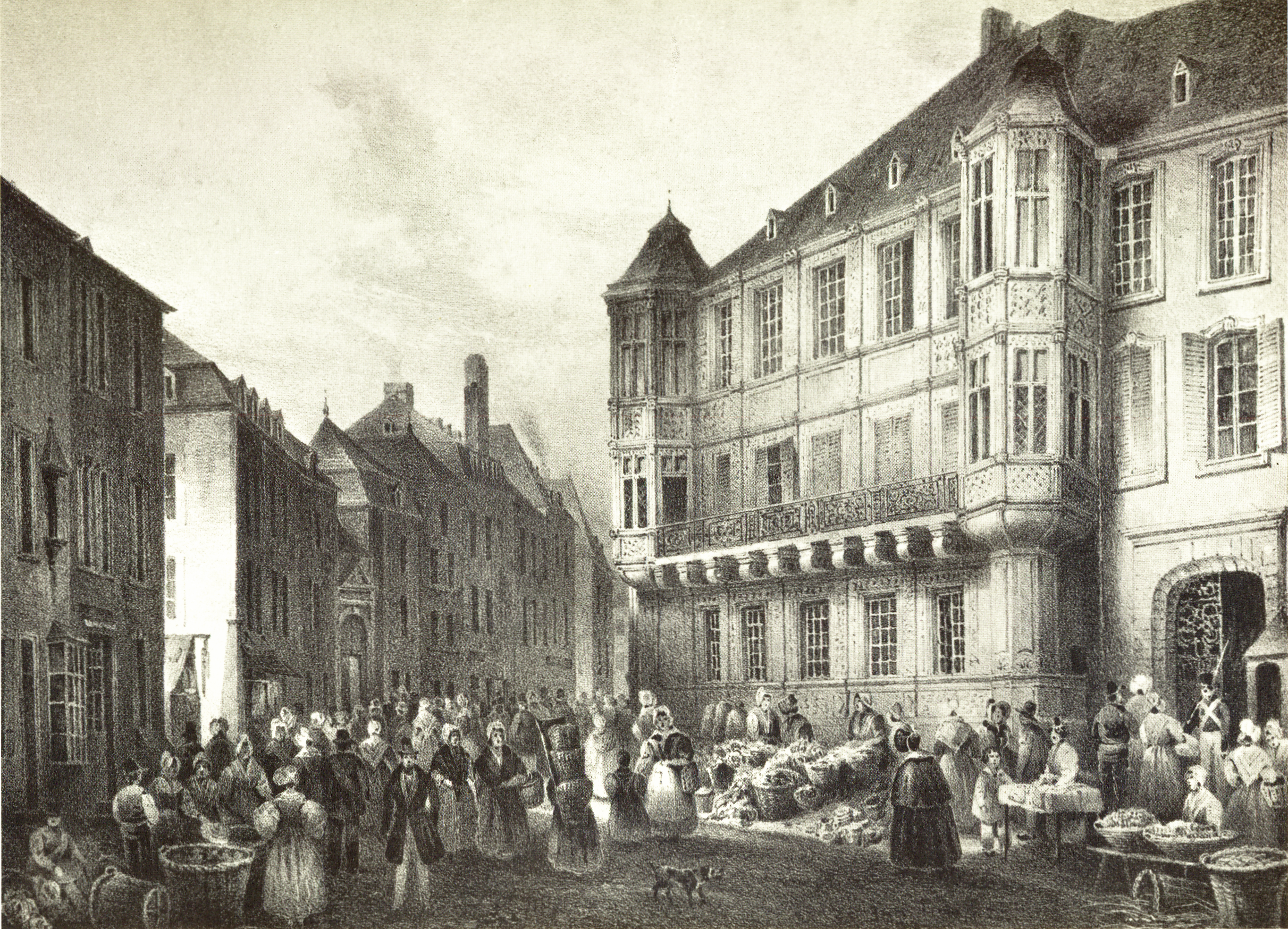 The hotel of the government, Luxembourg. Drawing.